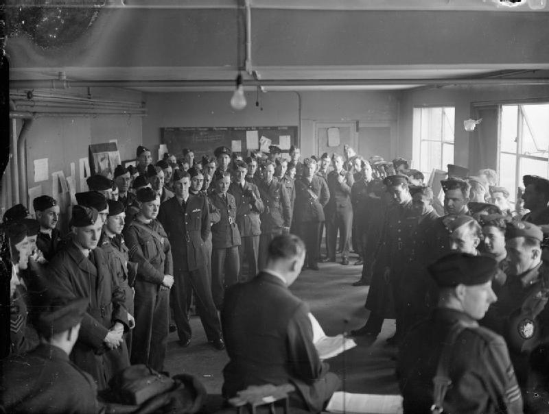 IWM caption : The Commanding Officer of No. 149 Squadron RAF talks to his aircrews in their Operations Room at Mildenhall, Suffolk, before they are briefed for the night's raid.